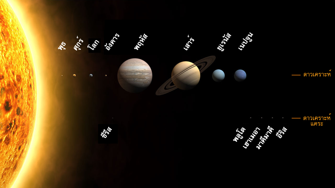 Planets of the solar system